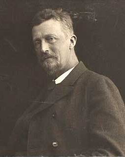 Photograph of August Jerndorff, Danish painter. Photographer: Frederik Riise (cropped version, not original)